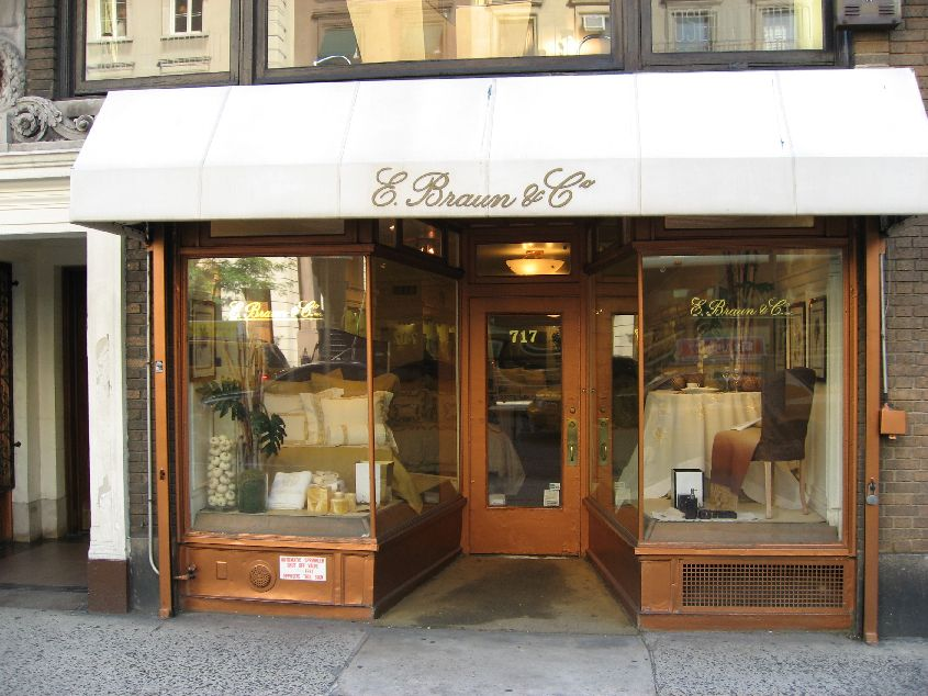 The E. Braun & Co. company on 717 Madison Avenue, New York City.